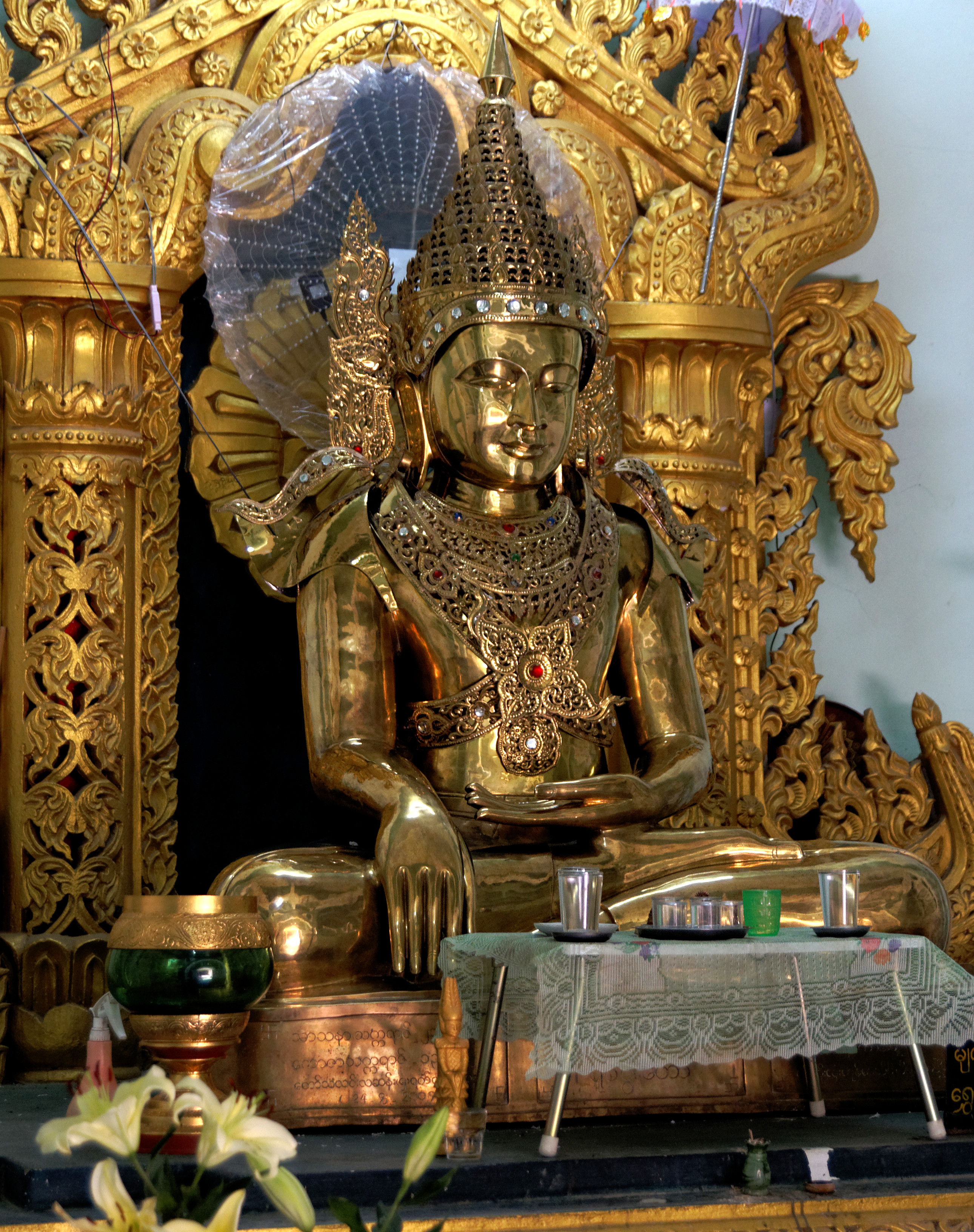 Buddha statue on the altar of Phaung Daw U Pagoda in Meiktila, Myanmar